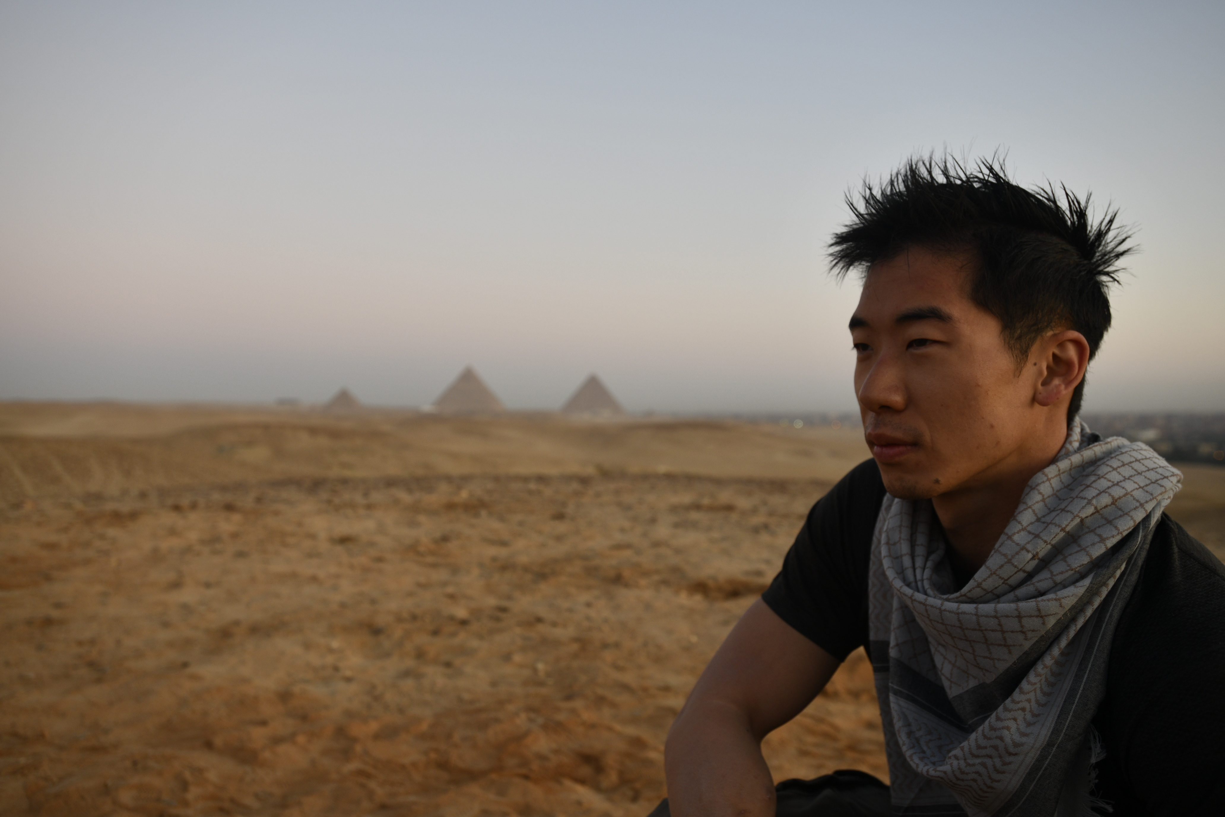 Calvin D. Sun, MD of The Monsoon Diaries, Returning to The Great Pyramids of Giza, December 2019